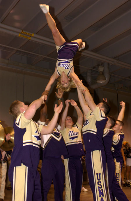 Caption: 031229-N-9693M-004 Houston, Texas (Dec. 29, 2003) ? U.S. Naval Academy (U.S.N.A.) Cheerleader Midshipmen 4th Class Jaime Bradley, from The Woodlands, Texas, flips upside down during a Pep Rally routine at the Rodeo Pep Rally in Reliant Arena. Navy, 8-4, will play Texas Tech, 7-5, on Dec. 30. This marks the 10th bowl appearance for Navy with their last bowl match-up in 1996. U.S. Navy photo by Damon J. Moritz. (RELEASED) Source: navy.mil